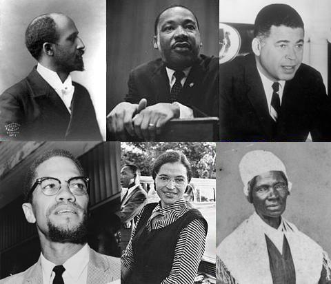 African American I created this image from the previous public domain image (see below) plus three public domain images of living African American leaders (C. Rice, first black female Sec. of State; C. Powell, first black Sec. of State/Chairman of Joint Chiefs; J. Jackson, first competitive major party candidate for Pres. of U.S. (1988)).